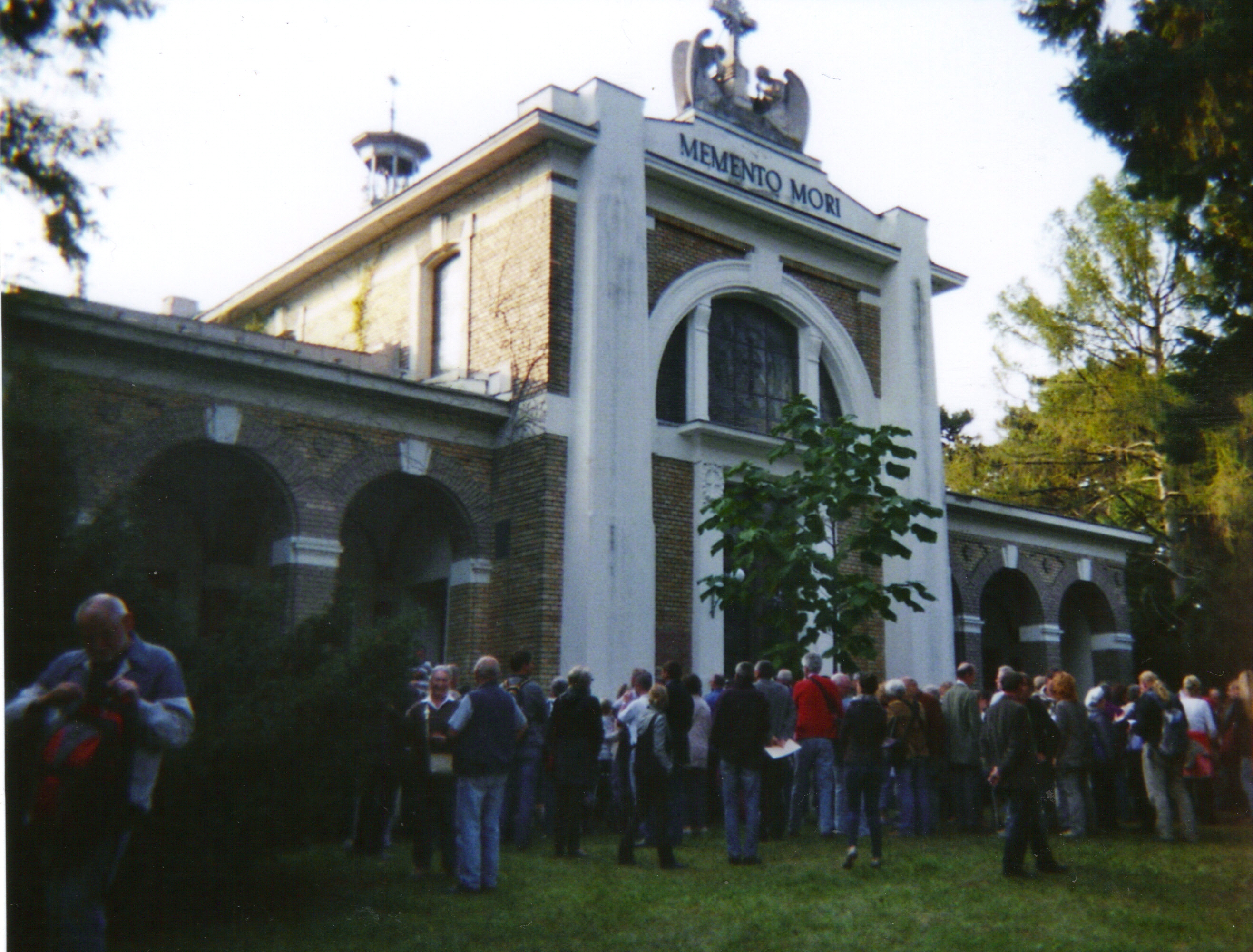 Information day on building projects at Otto-Wagner-Spital, Steinhof, Vienna